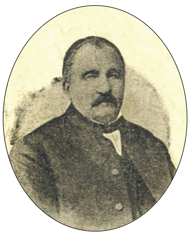 Fotograph of Doctor Sarantis Arxigenes, taken before 1873.